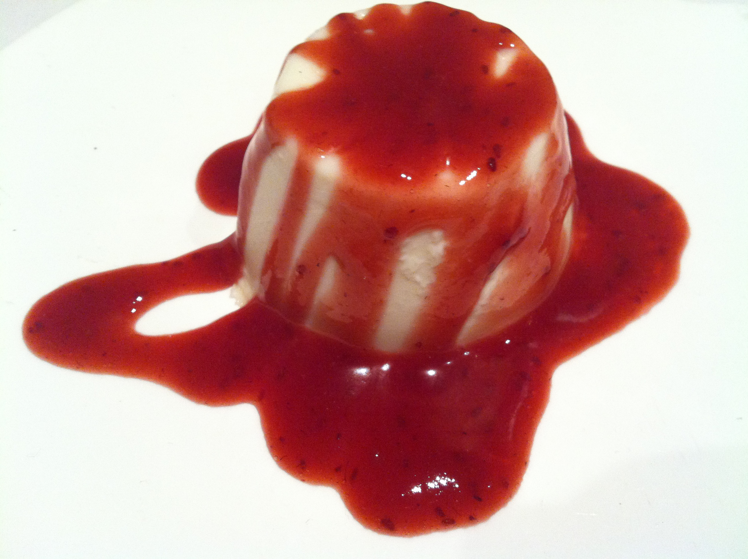 Panna cotta